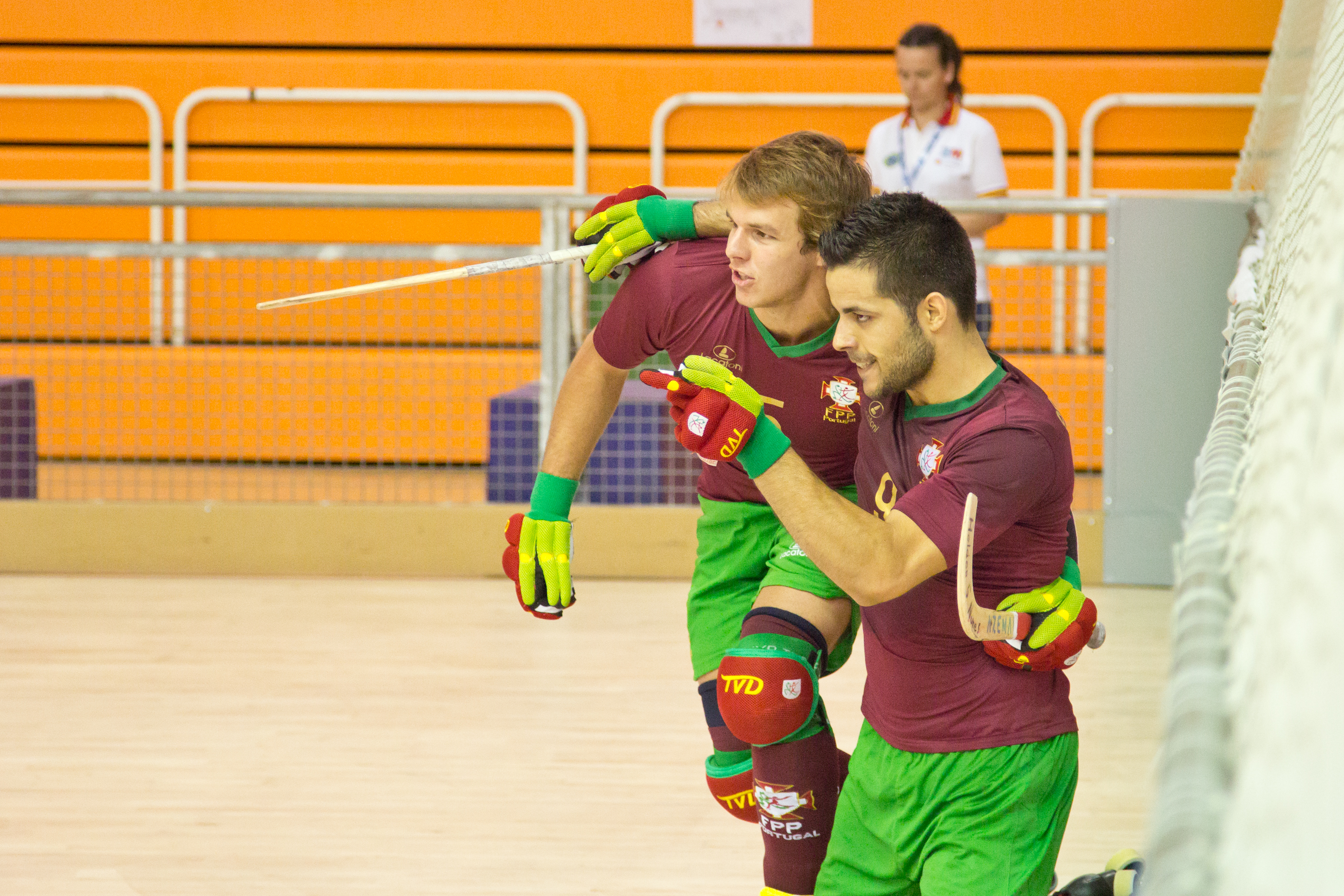 Portugal vs Germany, 2014 CERH European Championship.